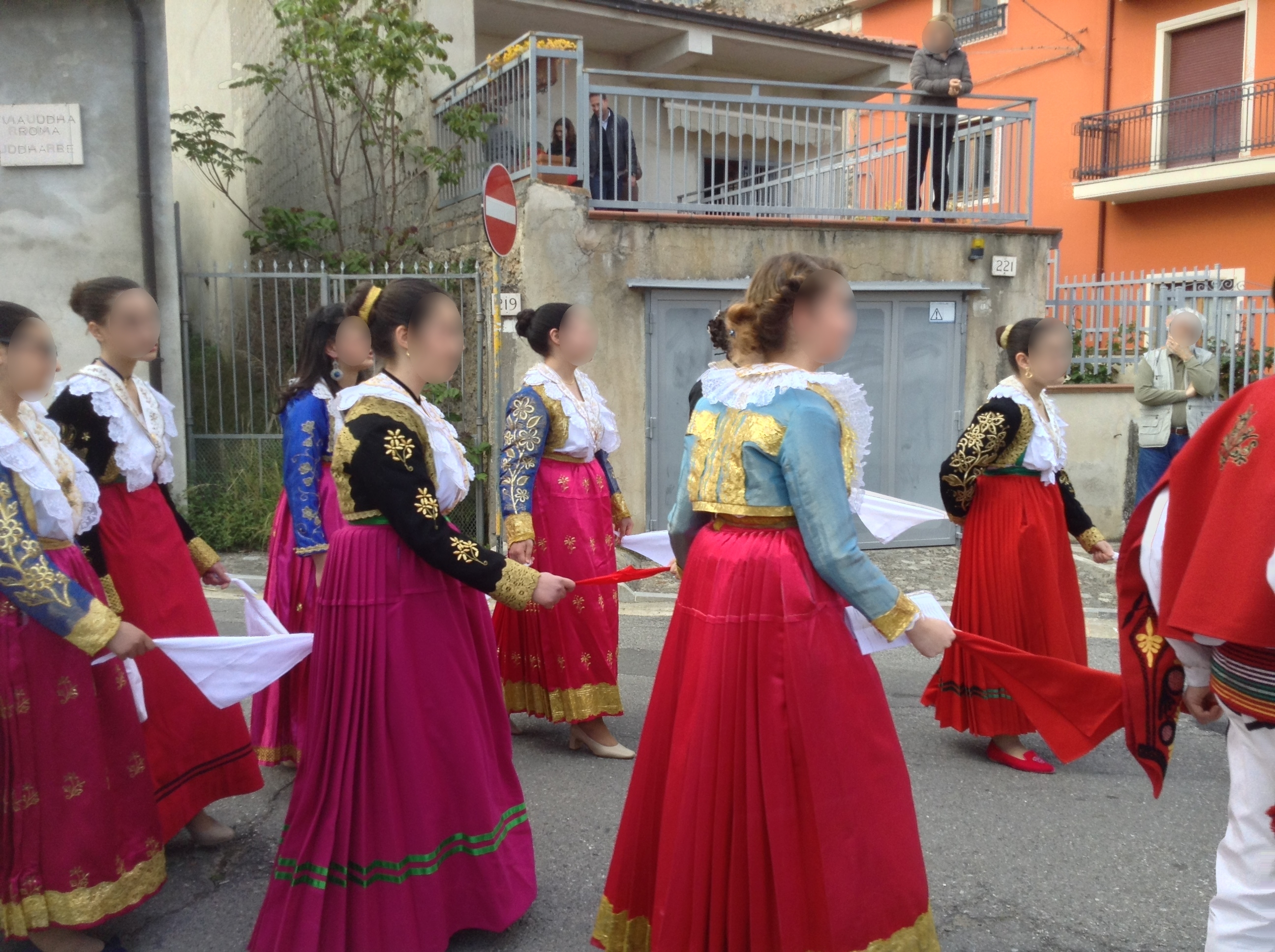 Arbëreshë costume of Frascineto, Calabria